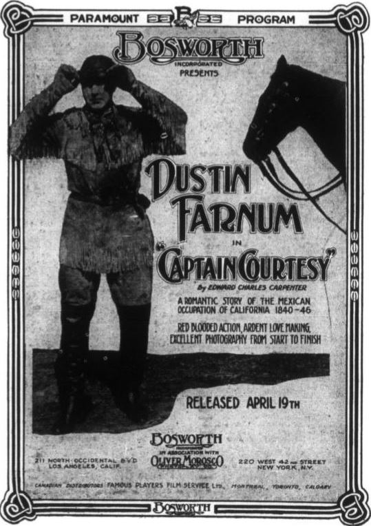 Advertisement for the American drama film Captain Courtesy (1915) with Dustin Farnum, on page 25 of the April 2, 1915 Variety.